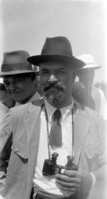 Portrait of K.W. Dammerman